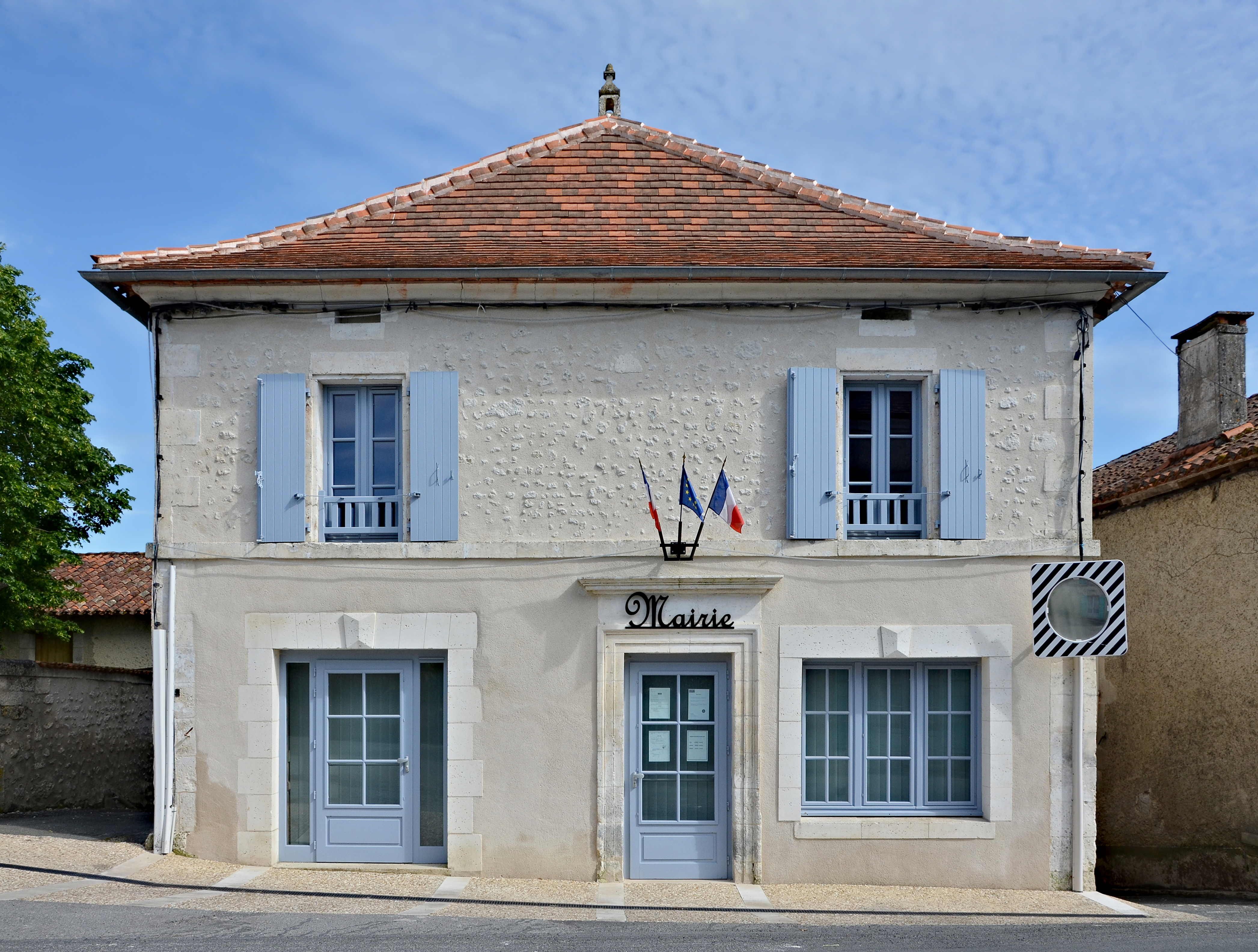 Facade of the town hall of Lusignac, Dordogne, France.